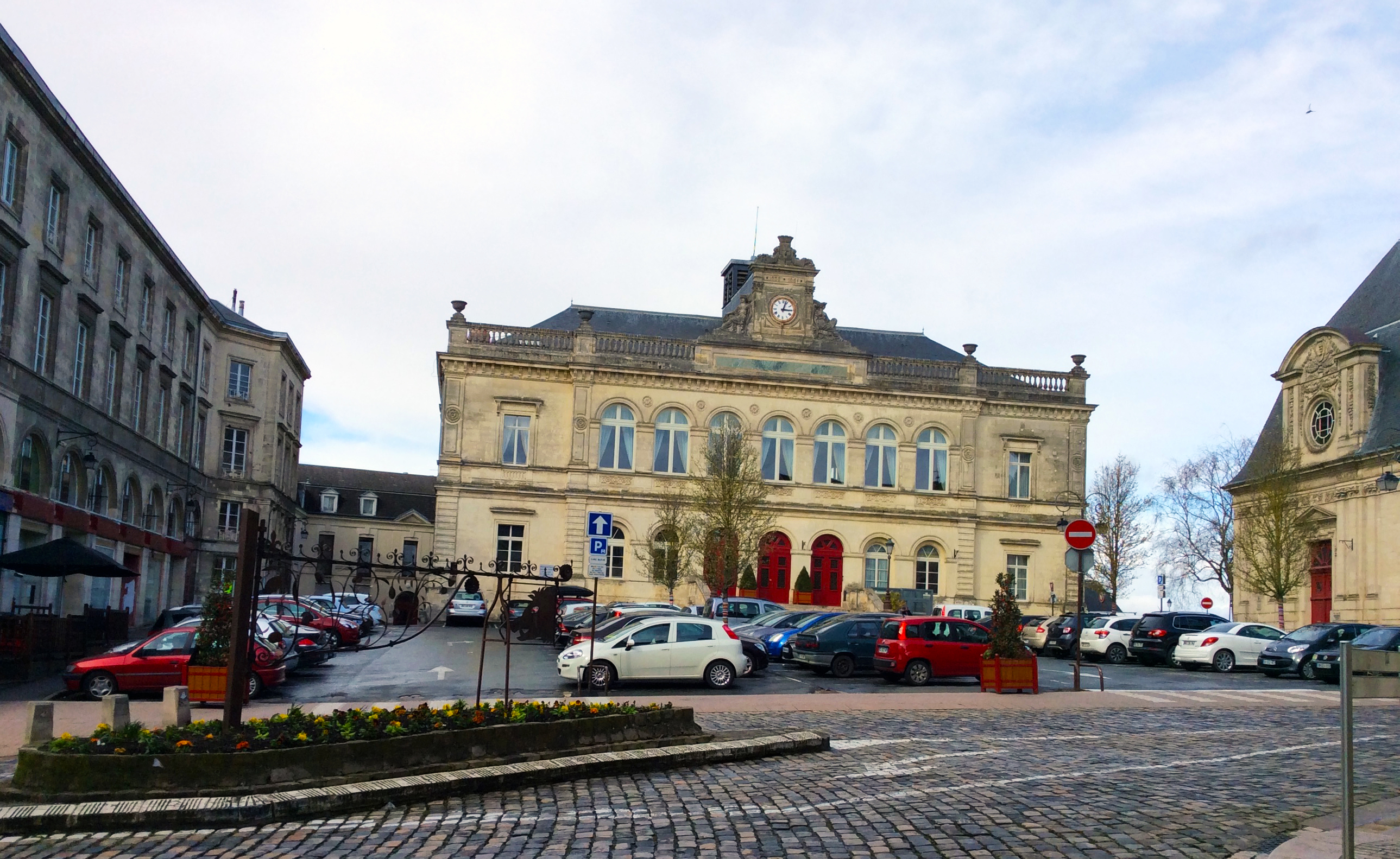 Town square, Laon, France, 2019